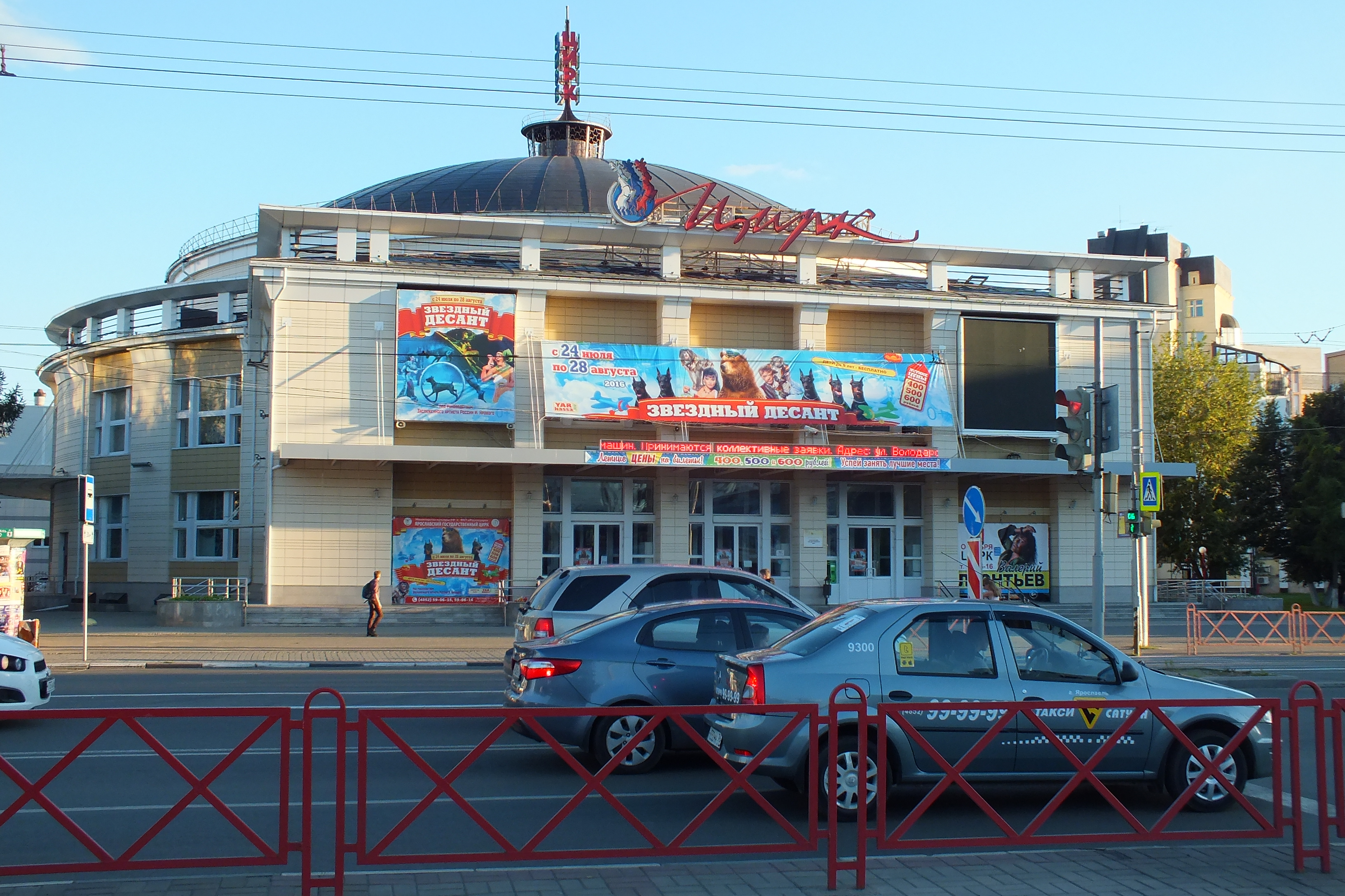 Yaroslavl State Circus on Truda Square.